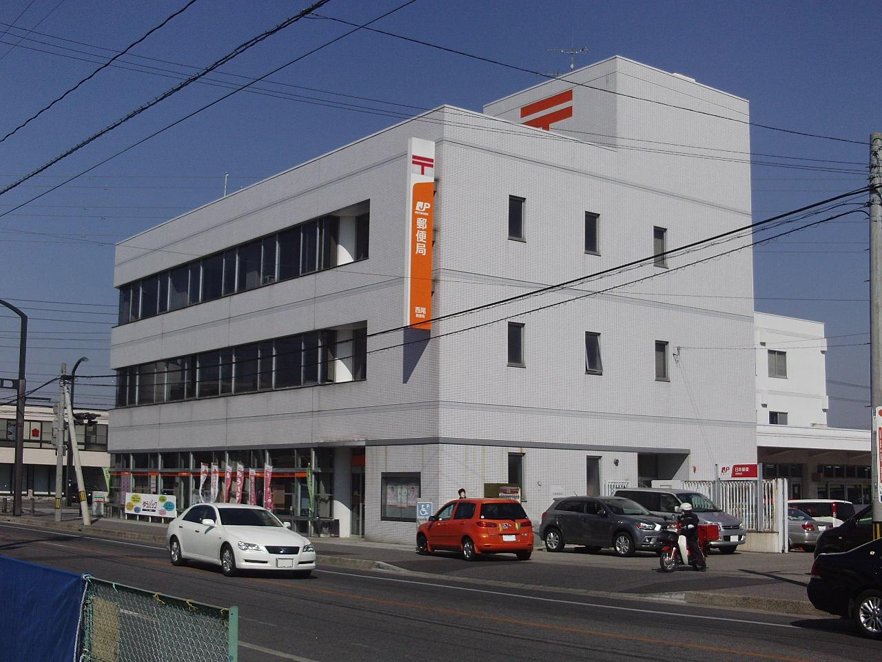 Nishio Post Office in Nishio, Aichi, Japan